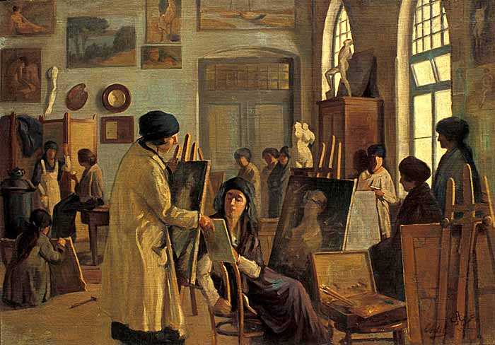 The 'Girls' Atelier', Omer Adil, 1919-1922, Istanbul Painting and Sculpture Museum İstanbul